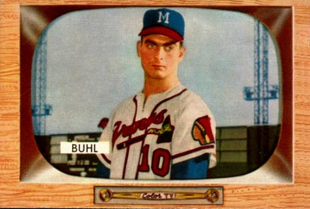 1955 Bowman baseball card of Bob Buhl of the Milwaukee Braves #43. PD-not-renewed.